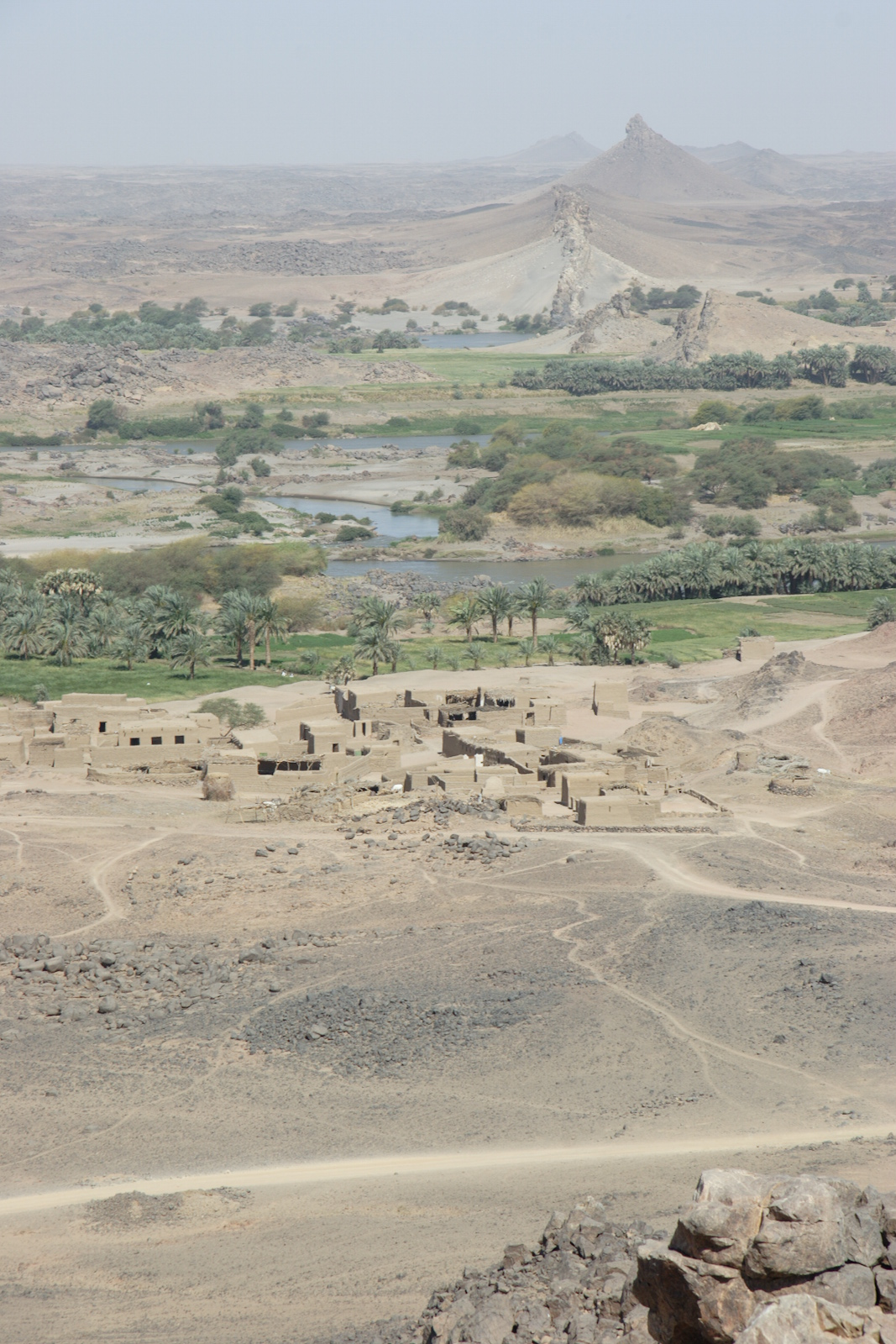 View from Gebel Musa in Dar al-Manasir, Northern Sudan. Below the mountain was the battlefield between the British infantry and the Dervish Forces lead by Musa Abu Higl from the Rubatab tribe in February 1885. (c) GFDL David Haberlah (Homepage of David Haberlah, )